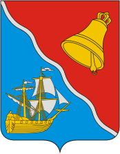 Polyarny (Murmansk oblast), coat of arms